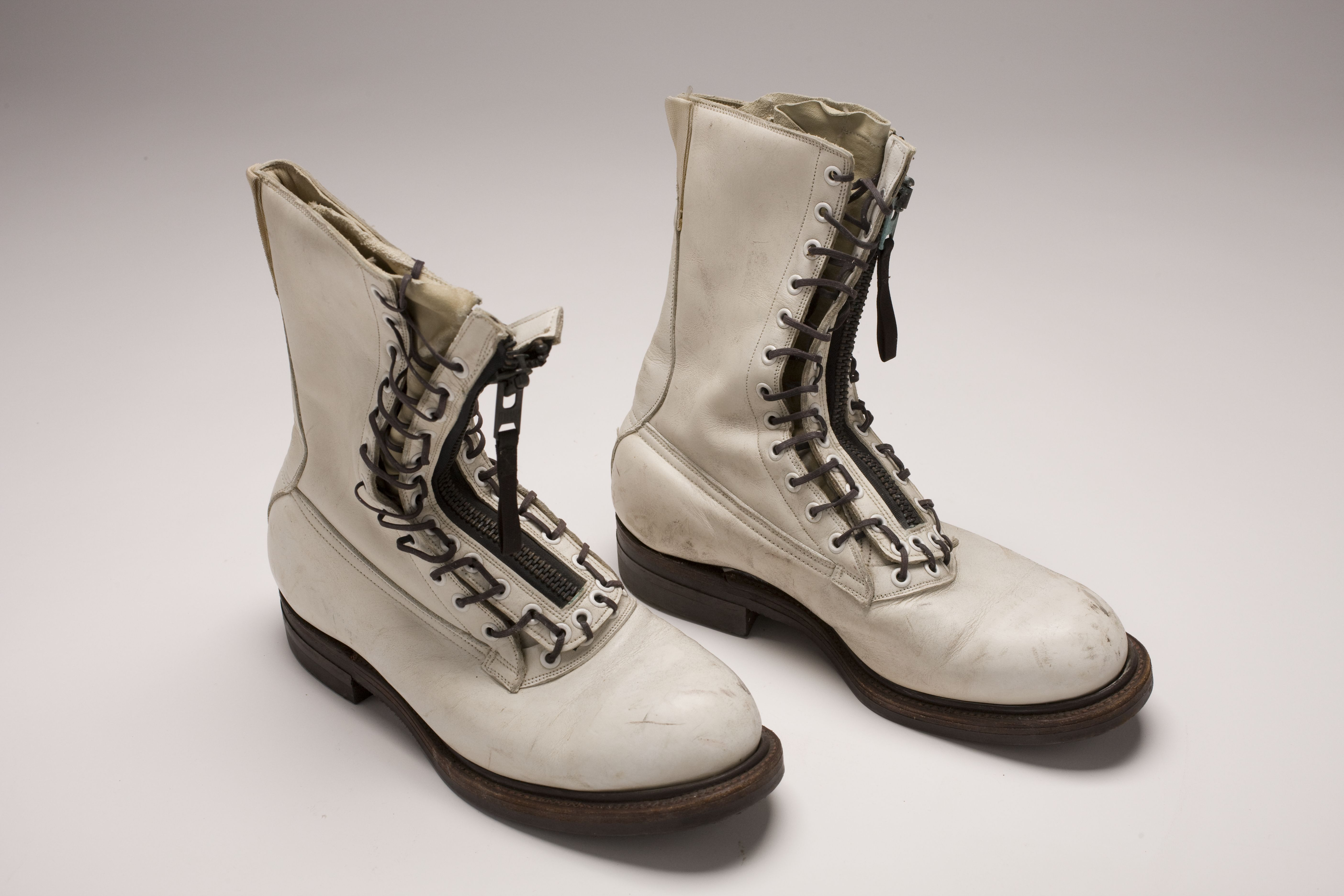 A-12 OXCART Flight Suit Boots. For more information on CIA history and this artifact please visit